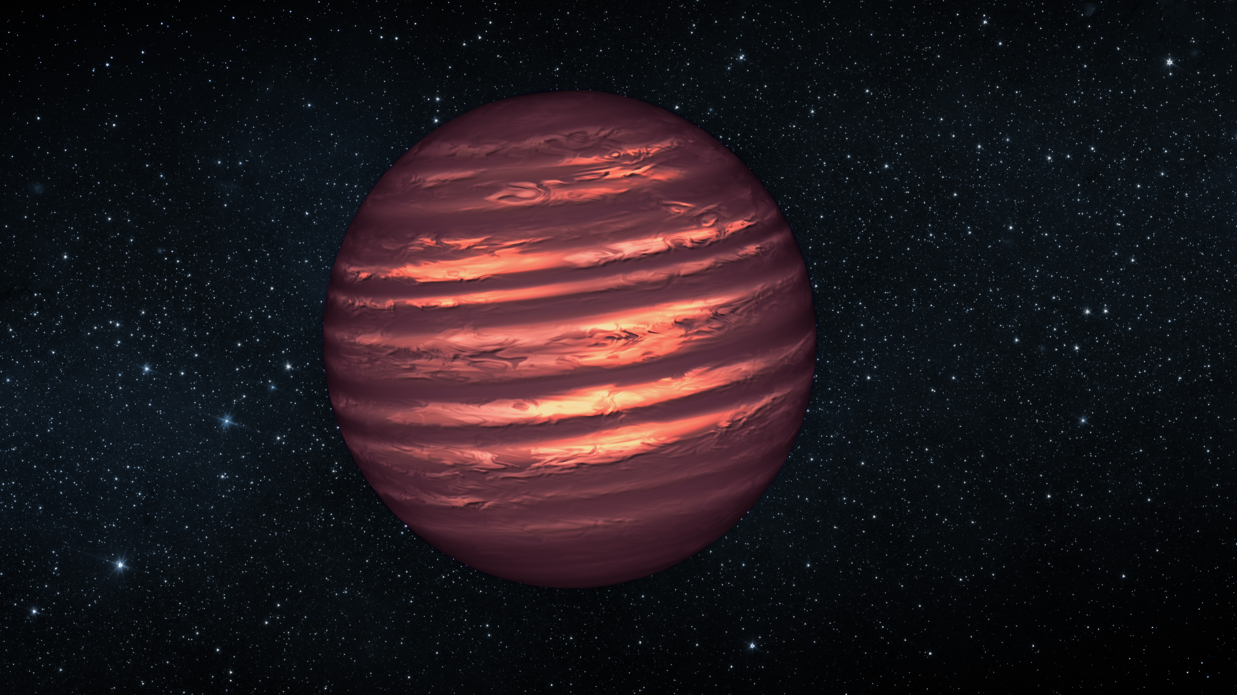 This artist's conception illustrates the brown dwarf named 2MASSJ22282889-431026. NASA's Hubble and Spitzer space telescopes observed the object to learn more about its turbulent atmosphere. Brown dwarfs are more massive and hotter than planets but lack the mass required to become sizzling stars. Their atmospheres can be similar to the giant planet Jupiter's. Spitzer and Hubble simultaneously observed the object as it rotated every 1.4 hours. The results suggest wind-driven, planet-size clouds.